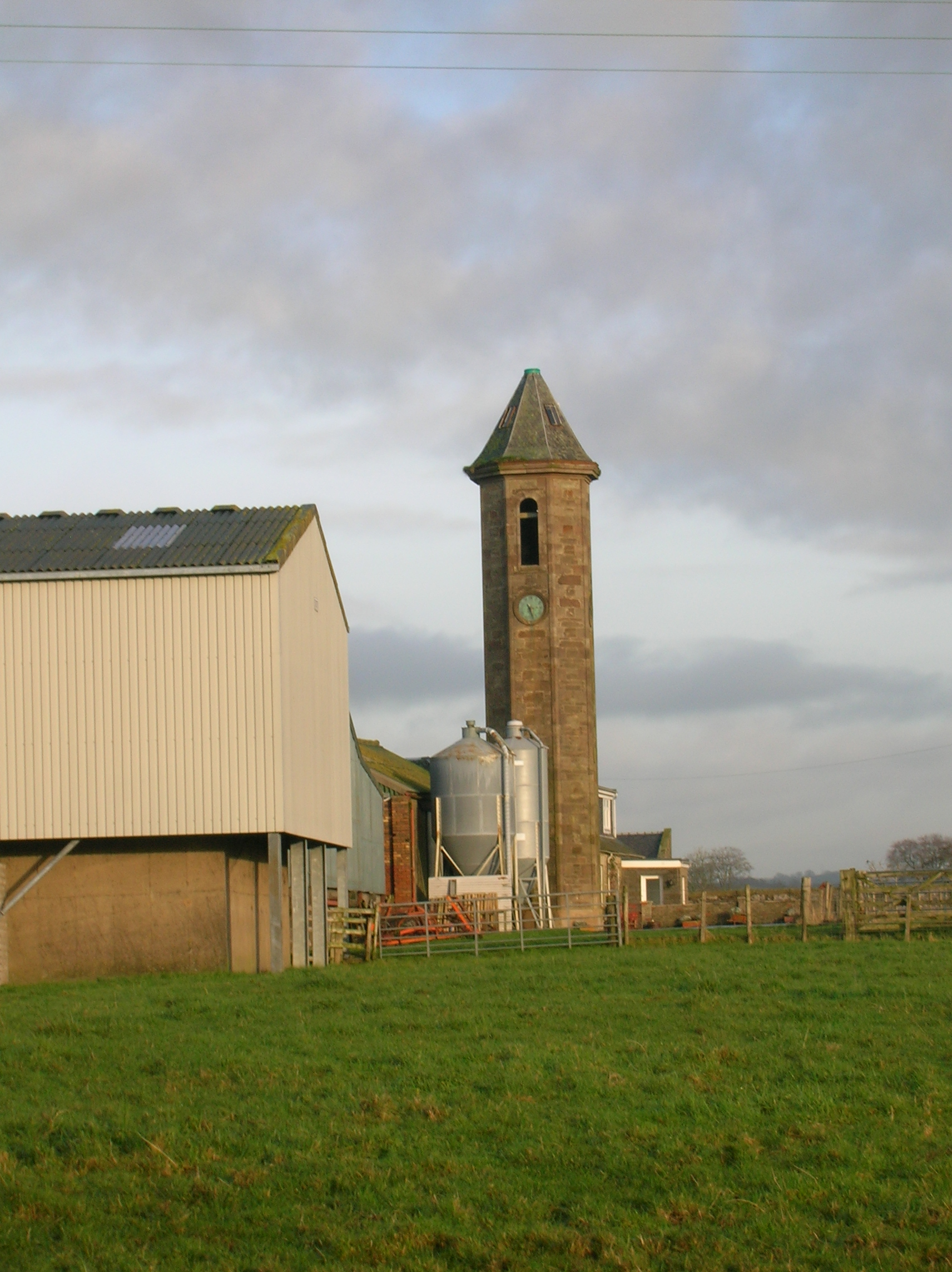 Girgenti tower, Torranyard, East Ayrshire, Scotland.